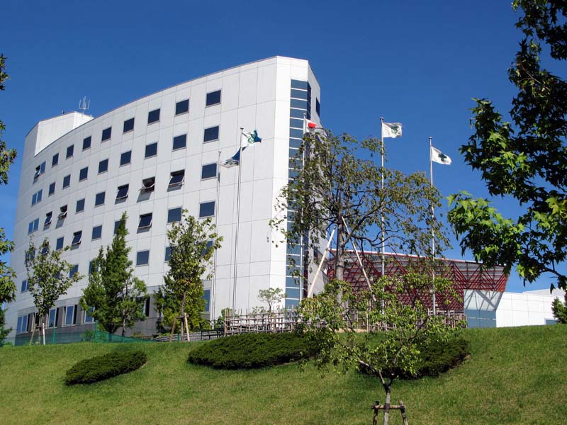 Crefeel Kotou